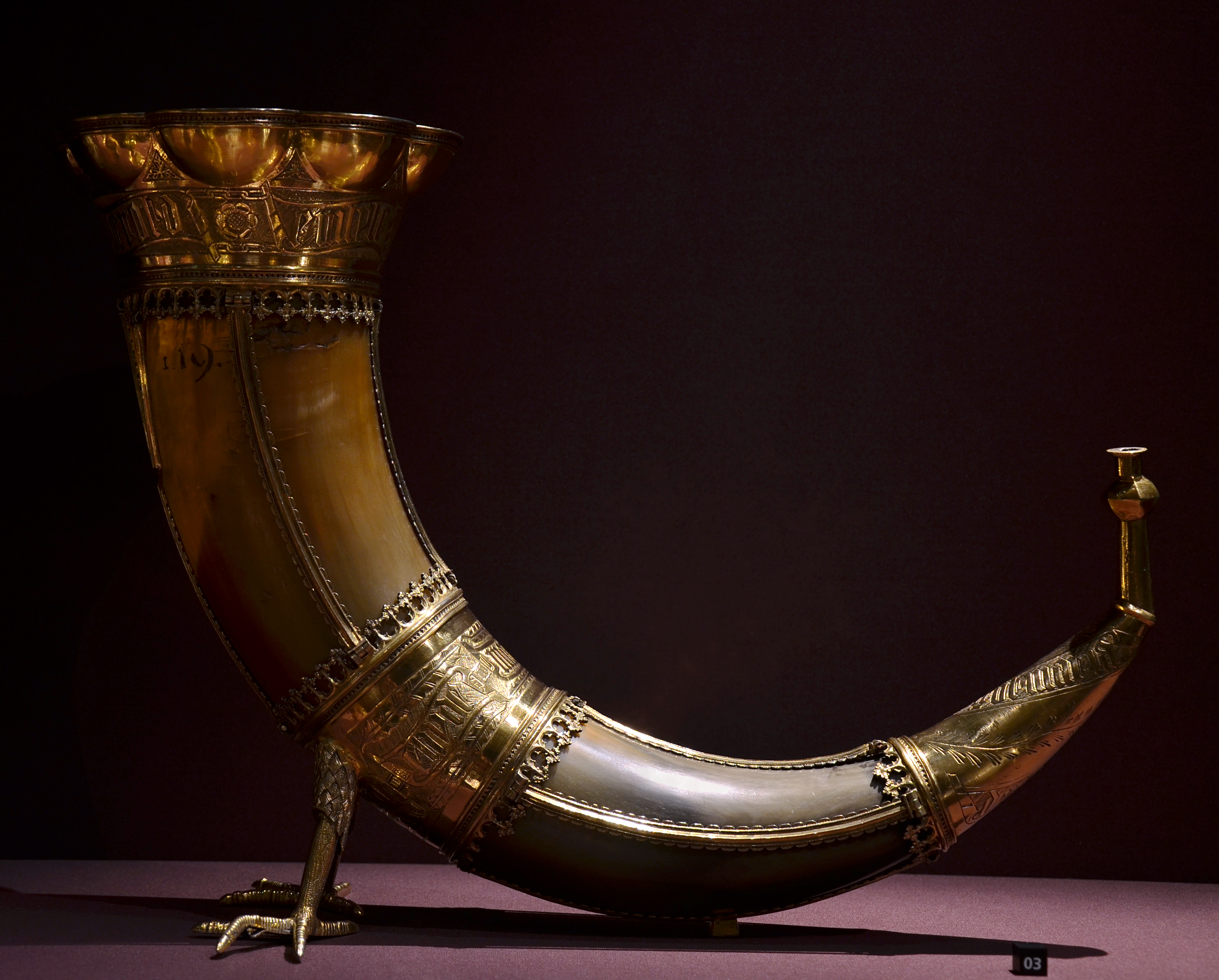 Drinking horn, so-called Griffin's Claw. Scandinavia or Northern Germany, 1st half of the 15th century. Horn and gilded silver. Now in the Kunsthistorisches Museum in Vienna.